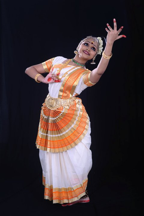 Mohiniyattom performance in Kerala Sangeetha Nataka Academy